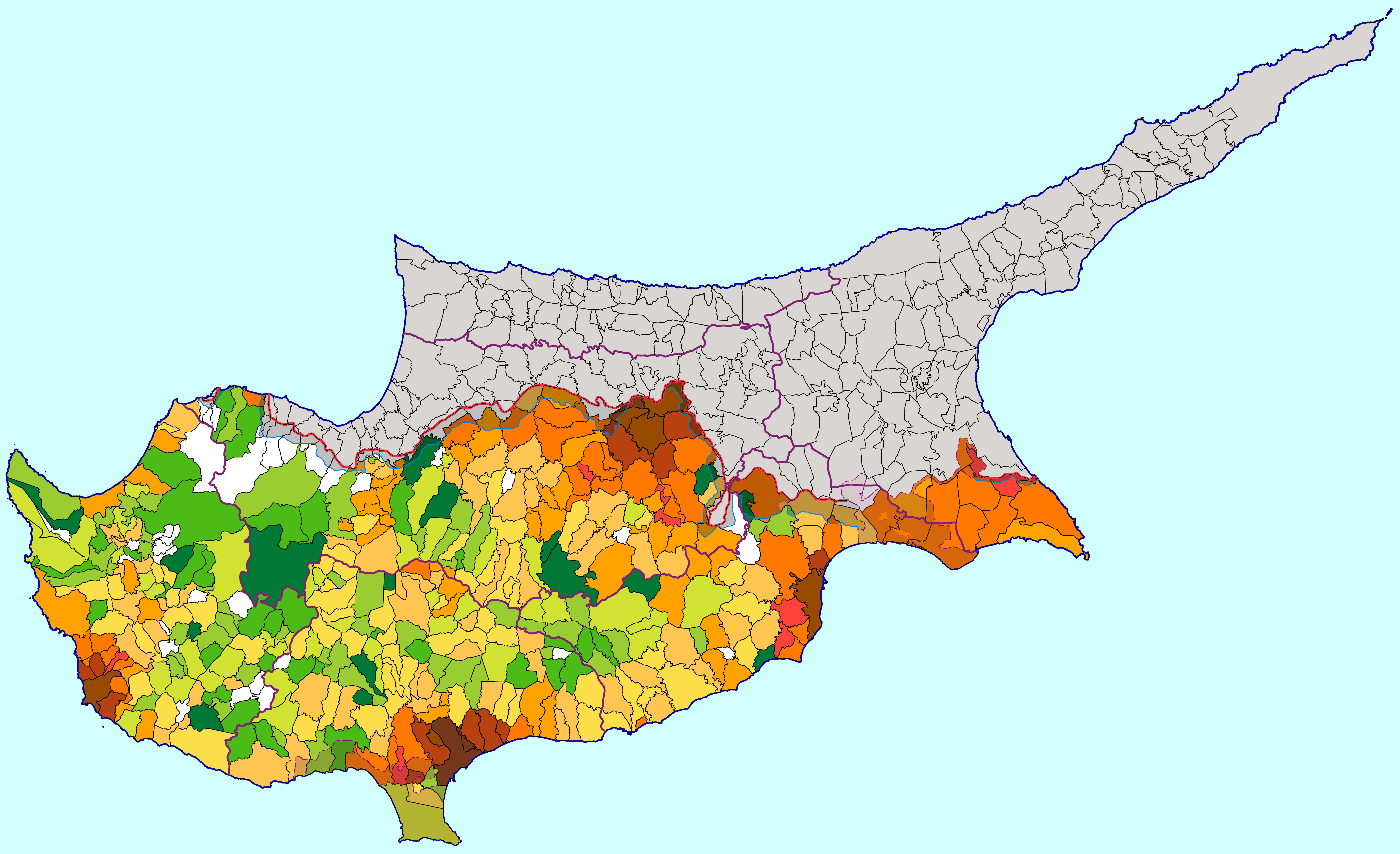 Map showing the population density of Cyprus, based on the 2001 census.